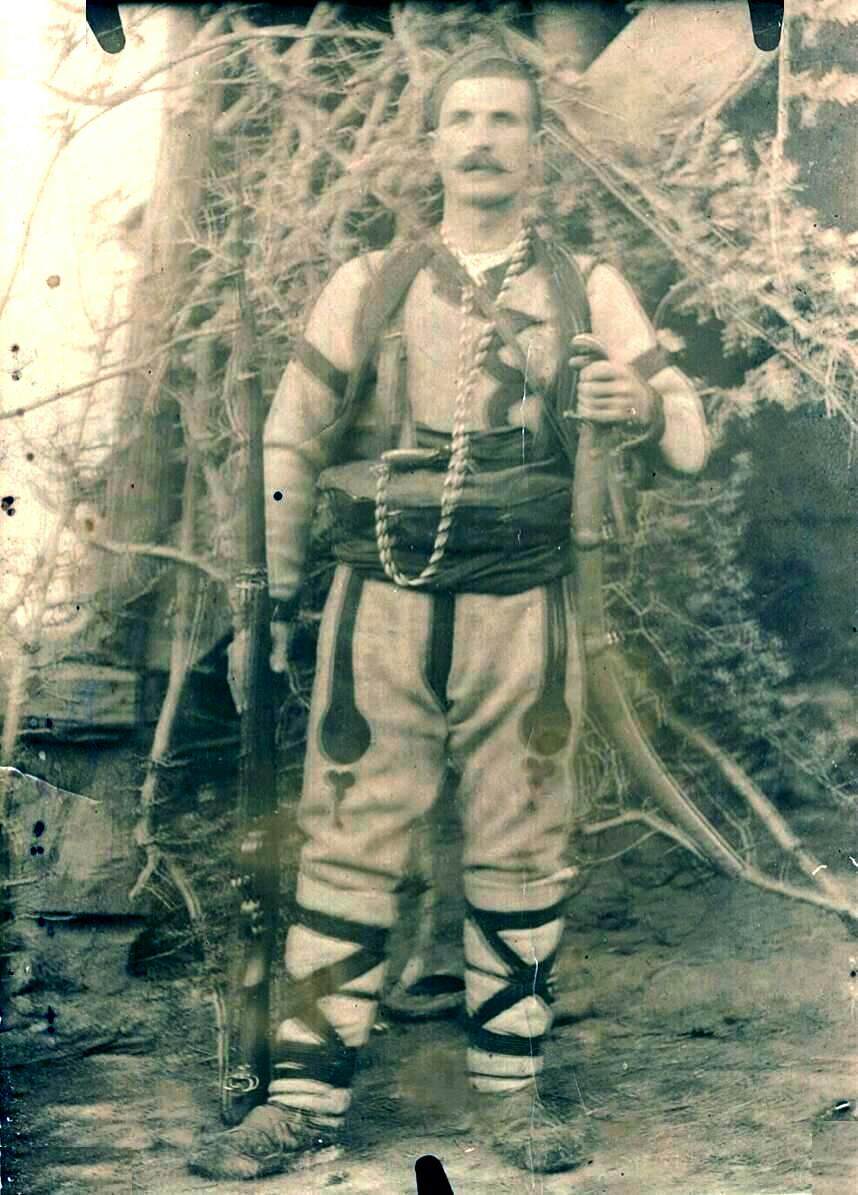 Georgi Bebechev IMARO